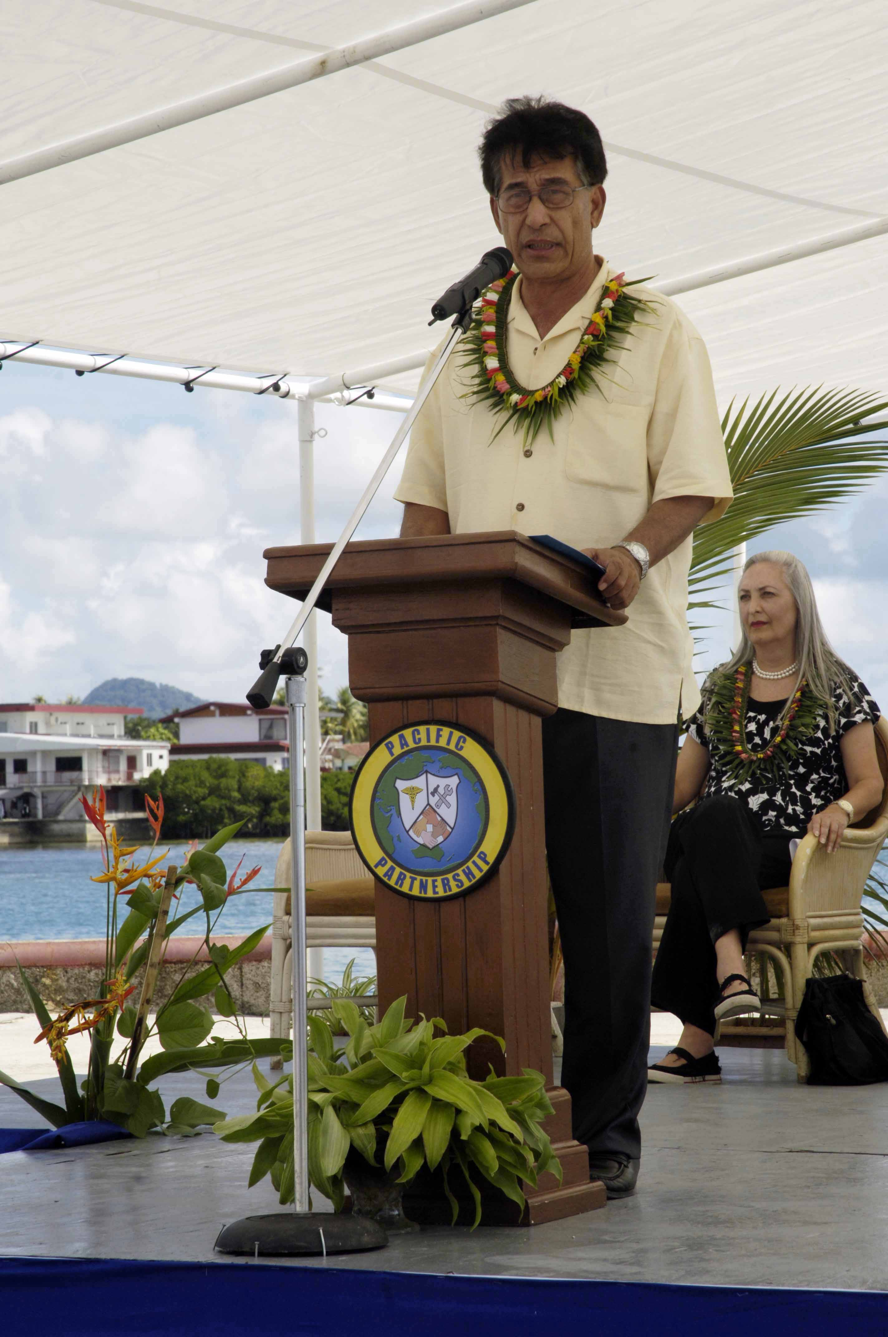 REPUBLIC OF MICRONESIA (Aug. 22, 2008) The Honorable Manny Mori, president of the Federated States of Micronesia, speaks at an opening ceremony welcoming Pacific Partnership to the Chuuk islands. Pacific Partnership continues to improve bilateral relations between the United States and the host nations, demonstrating continued commitment to work together to address mutual issues and concerns. This mission is in support of and in cooperation with the government of the Republic of Micronesia, Partner nations including representatives from Australia, India, Canada, New Zealand, Chile and the Republic of Korea along with joint service cooperation and many non-governmental organizations. (U.S. Navy photo by Mass Communication Specialist 3rd Class Joshua Martin/Released)